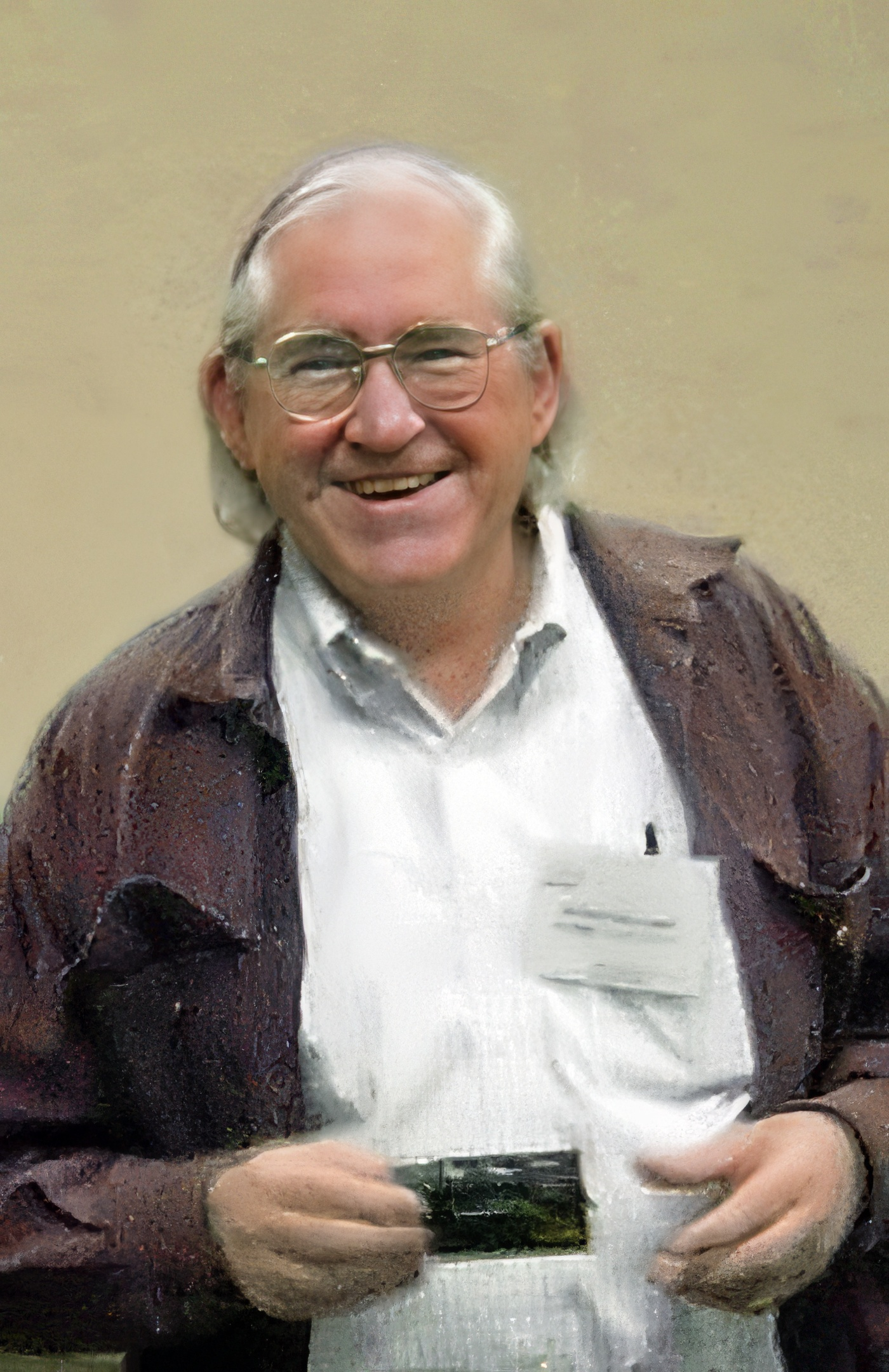 Mathematician Richard Schroeppel on March 30, 2004 at an experimental mathematics conference in Oakland, California